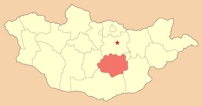 Map of Mongolia with Dundgobi Aimag highlighted.